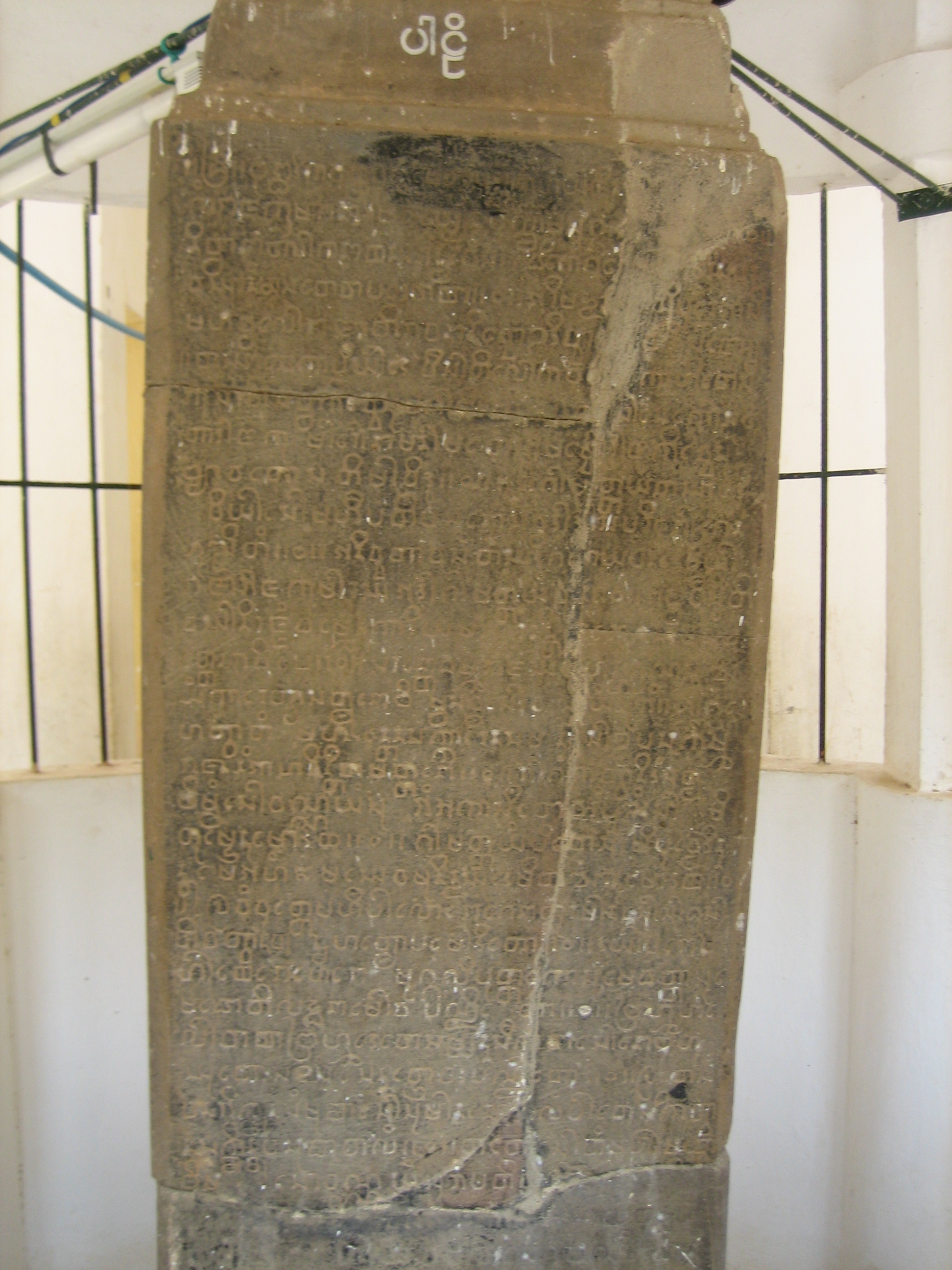 Myazedi Inscription in Pali -- Gubyaukgyi Temple, Bagan, Myanmar